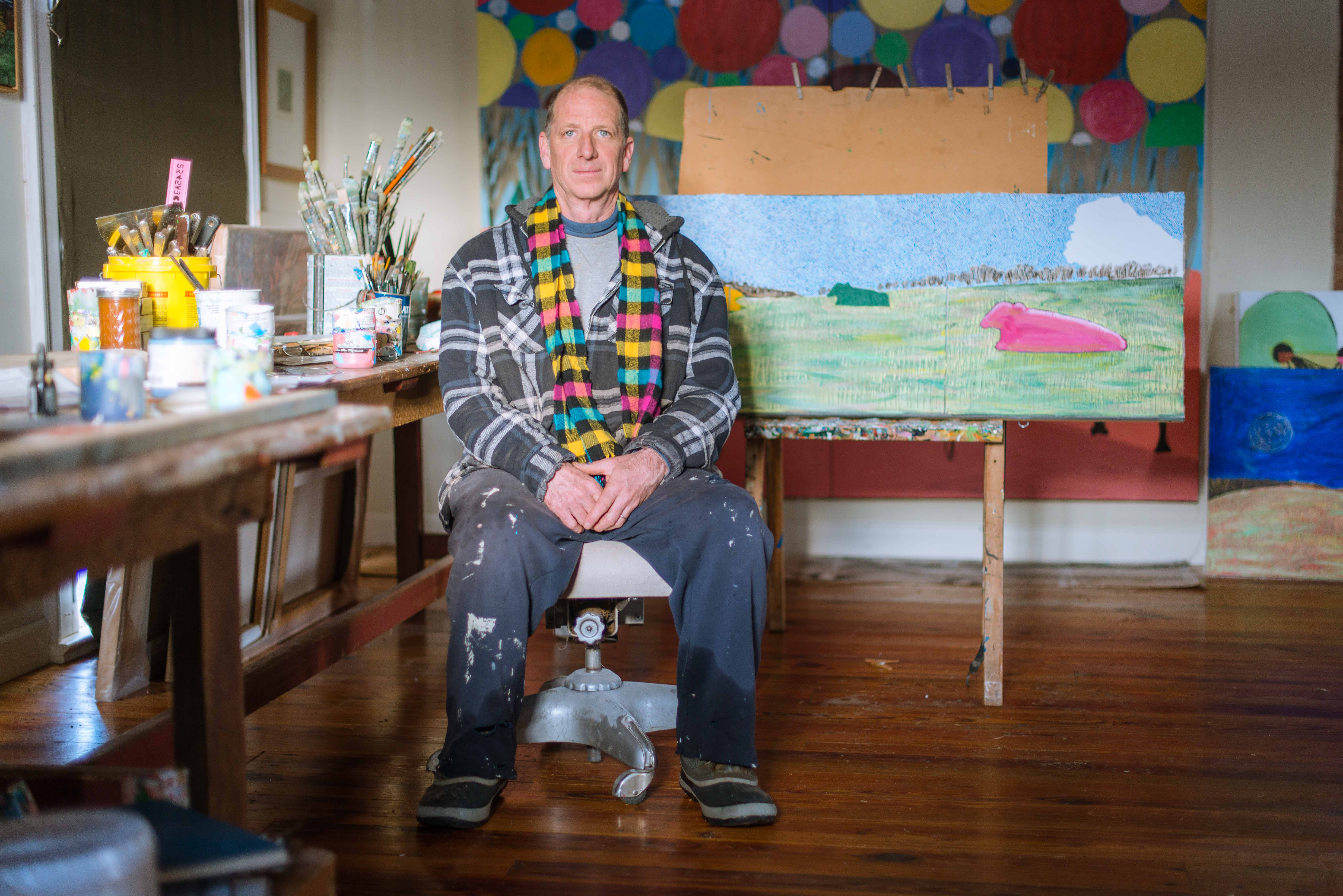 Still production from the documentary “White: A Season in the Life of John Borden Evans”. Borden Evans in his North Garden Studio in Virginia.